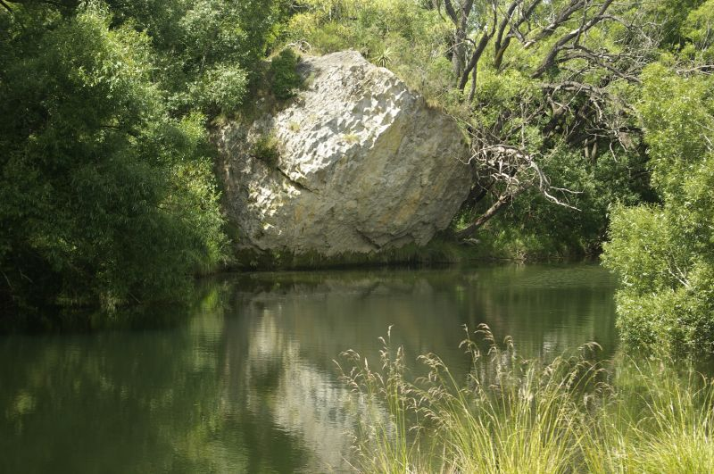 From Flickr: "Waihao river ("Black hole")"